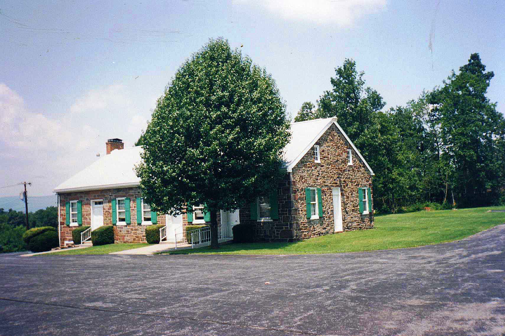 Monocacy Congregation Church of the Brethren, built in circa 1853, 13517 Motters Station Road, Rocky Ridge, Frederick County, Maryland.